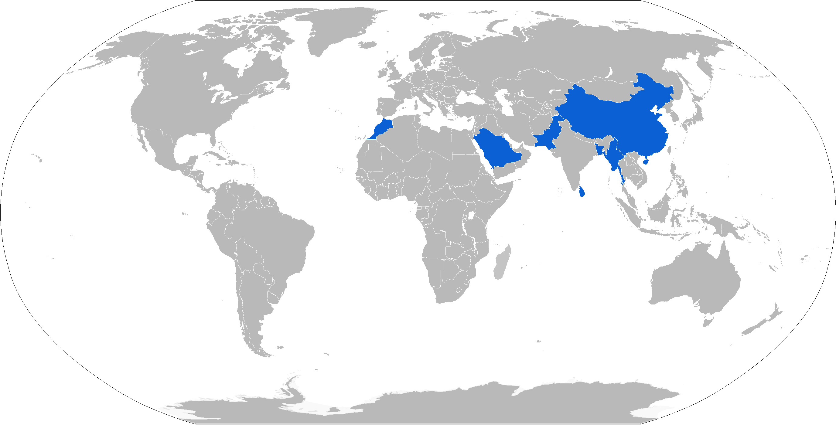 Map of MBT-2000 (Al-Khalid/VT-1) operators in blue with former users in red